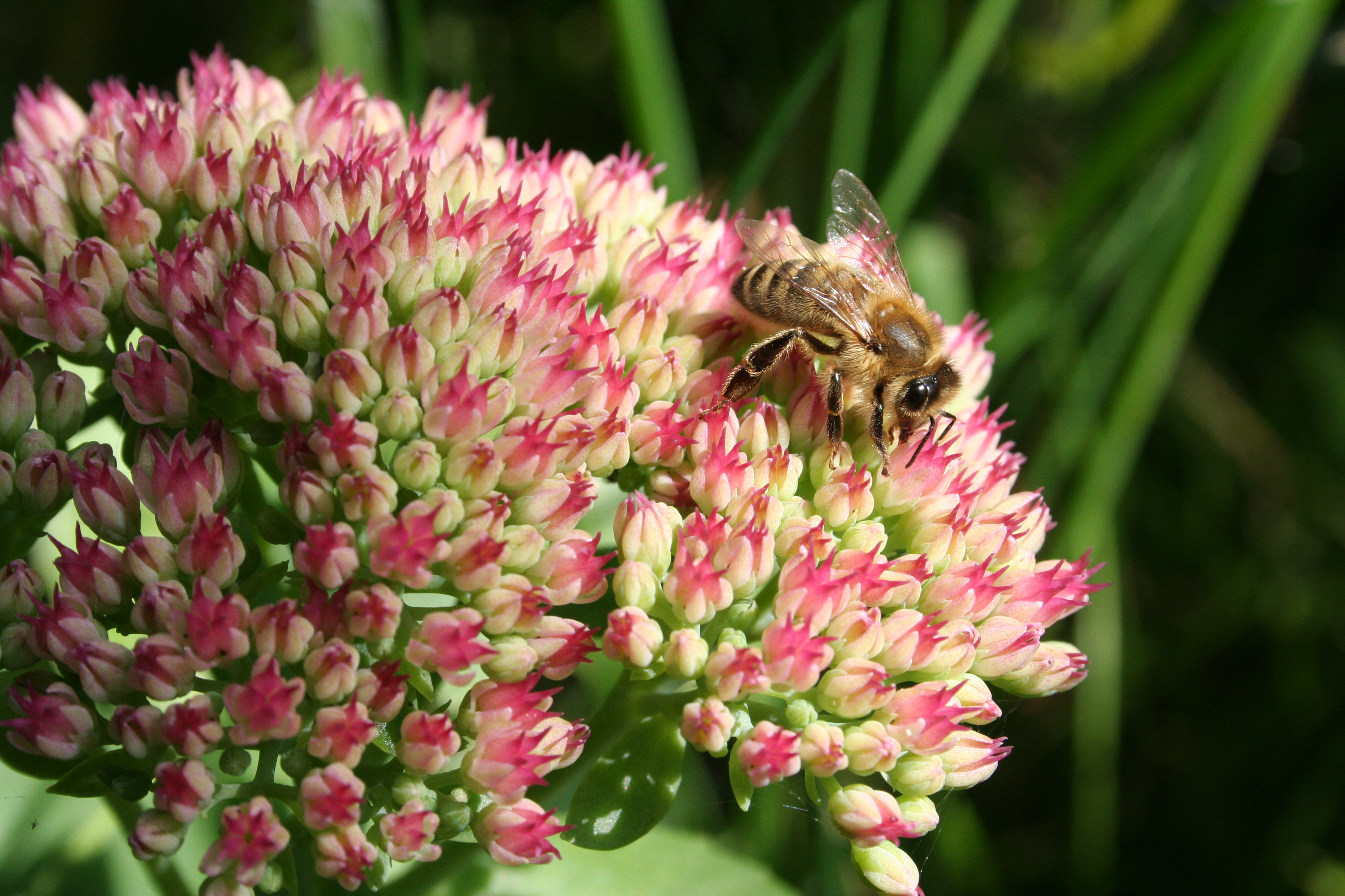 Honey bee (Apis mellifera) on a flower.